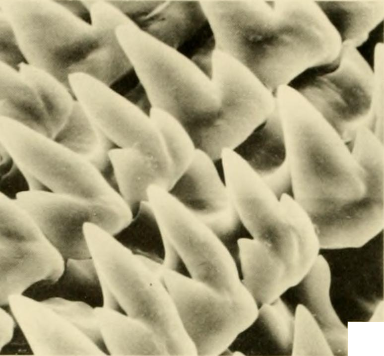 SEM black and white photo of central and early lateral teeth of radula of Novisuccinea chittenangoensis. FMNH 175425. Magnification 905×.